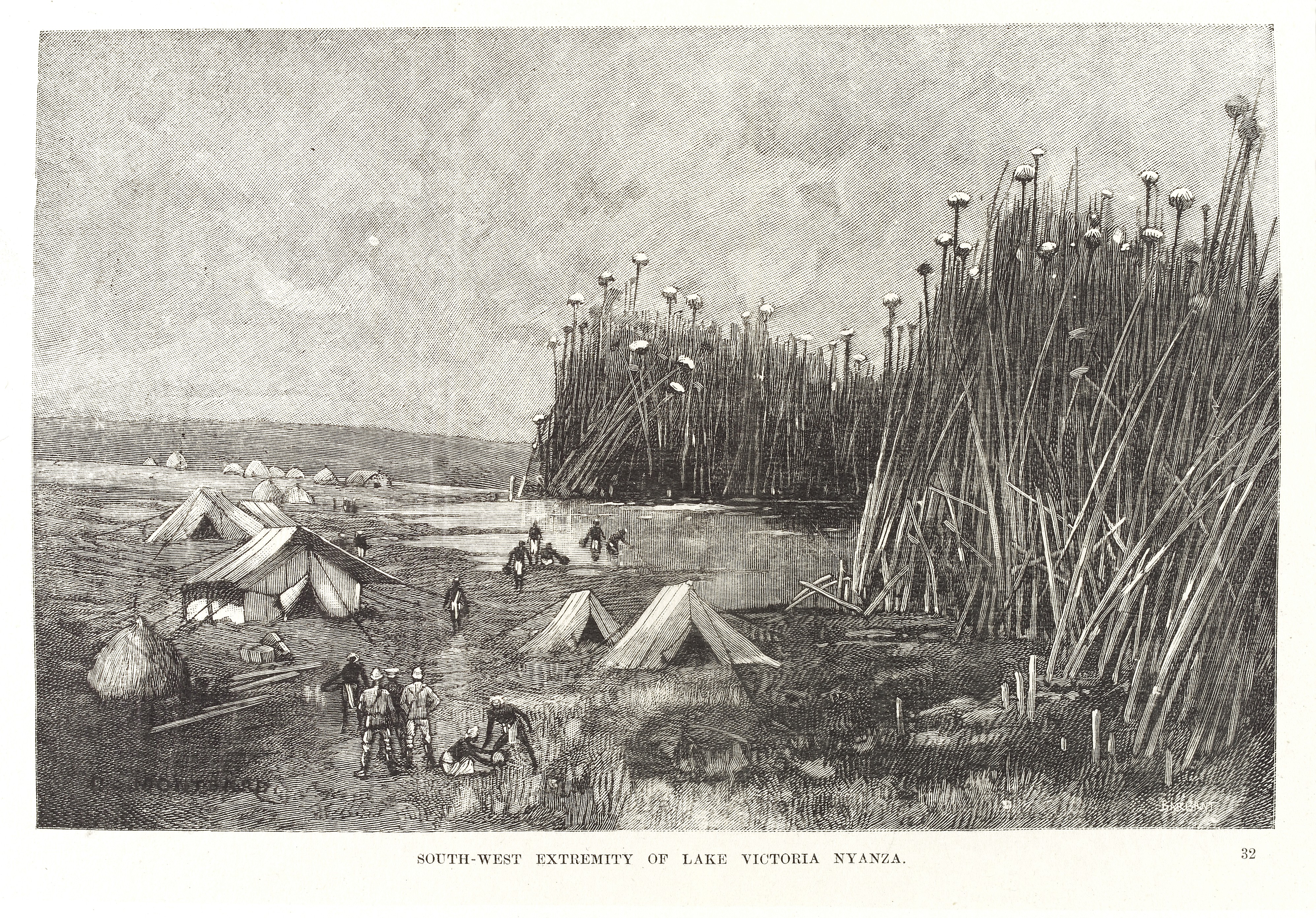 "South-west extremity of Lake Victoria , Nyanza". Camp on the shores of Lake Victoria. General Collections Keywords: Emil Pasha; Expedition; Travel; Henry Morton Stanley; Emin Pasha Relief Expedition; Travels; Exploration; Meaulle; Expeditions